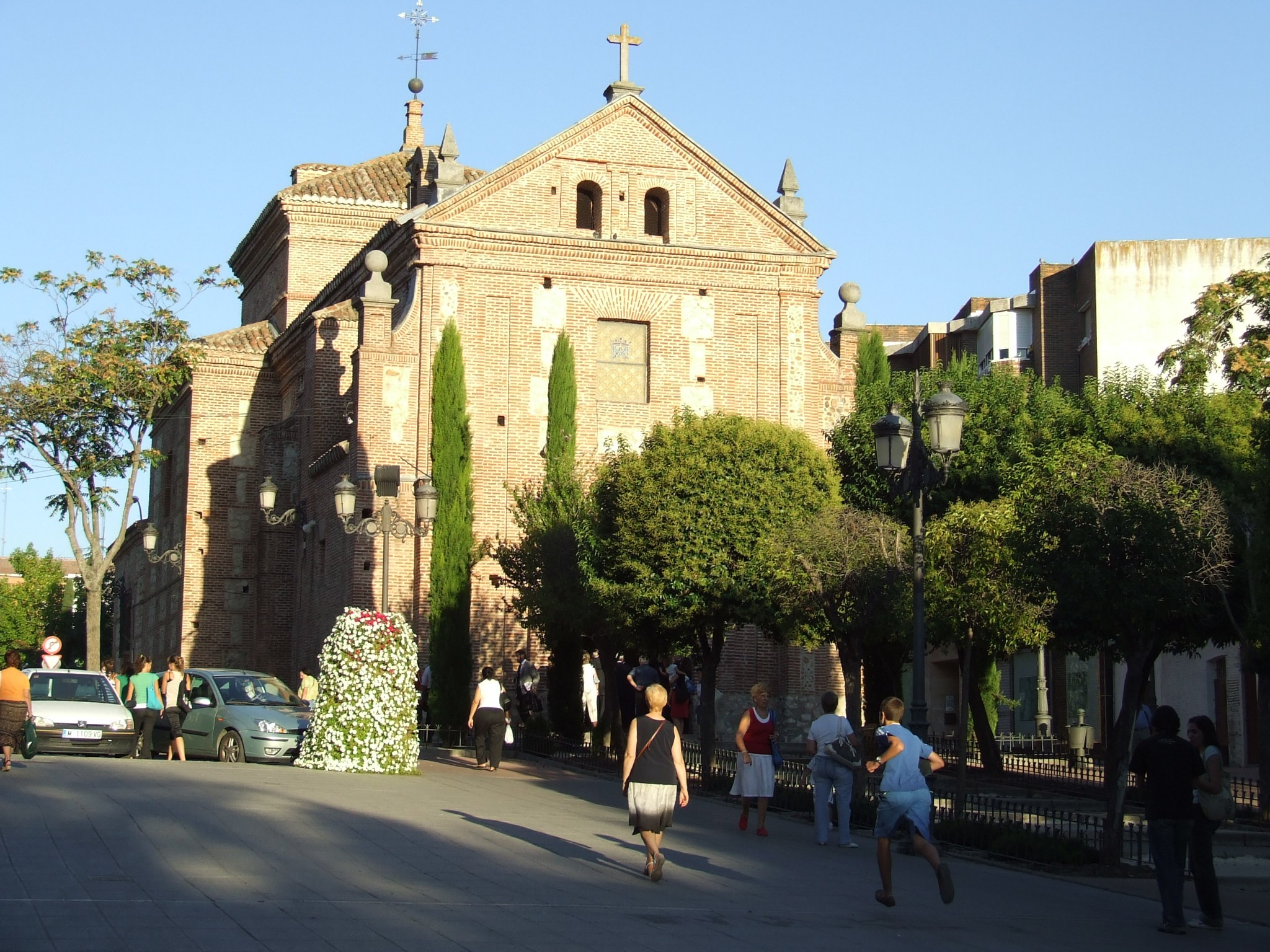 Móstoles is an autonomous community of the city Madrid in Spain.